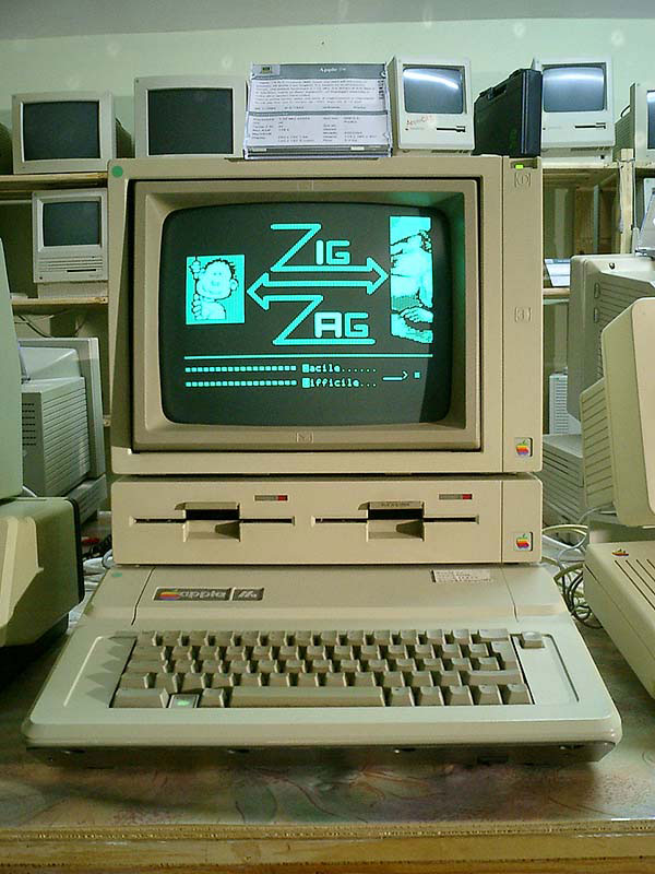 Apple IIe setup.